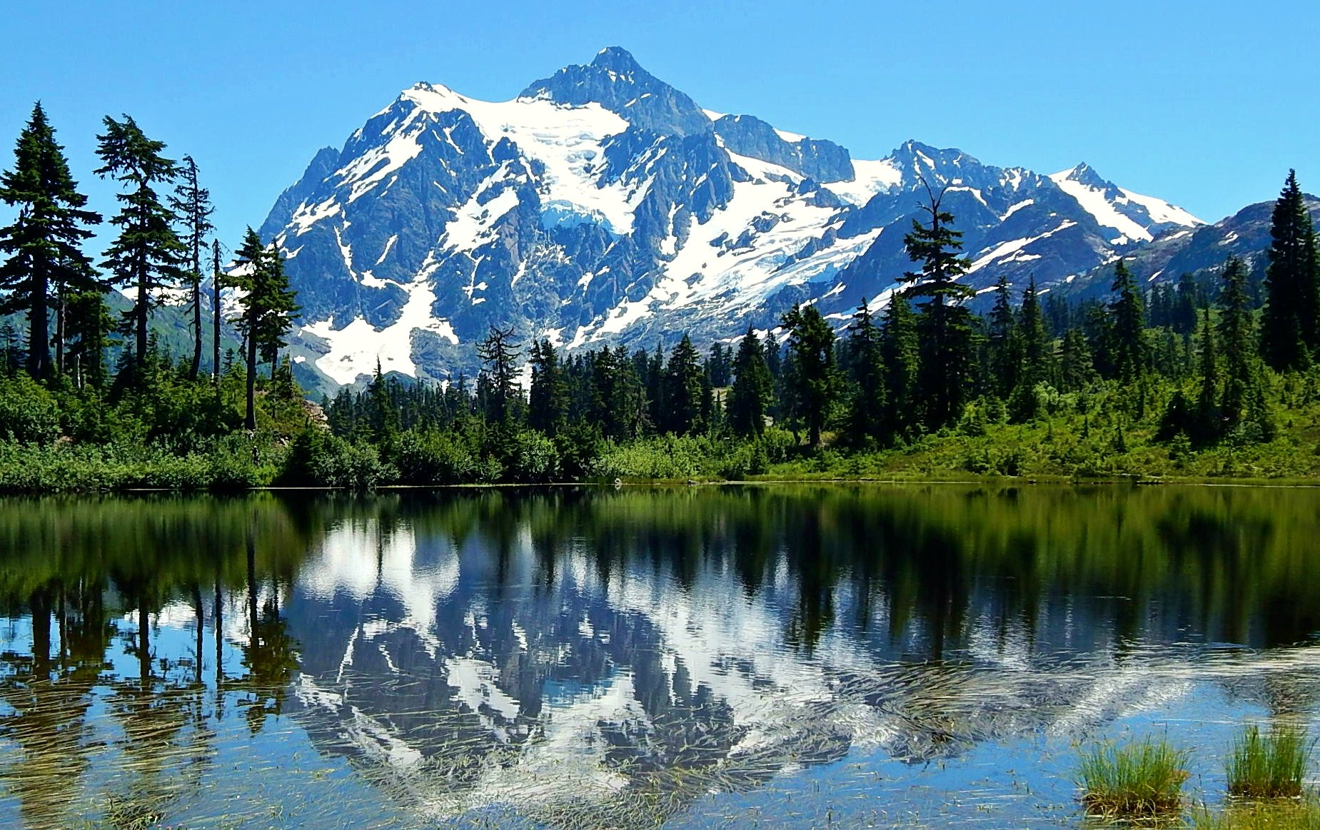 The iconic calendar and postcard image of Mount Shuksan reflected in Picture Lake. Mt. Shuksan is located in North Cascades National Park. Picture Lake is next to Washington State Route 542